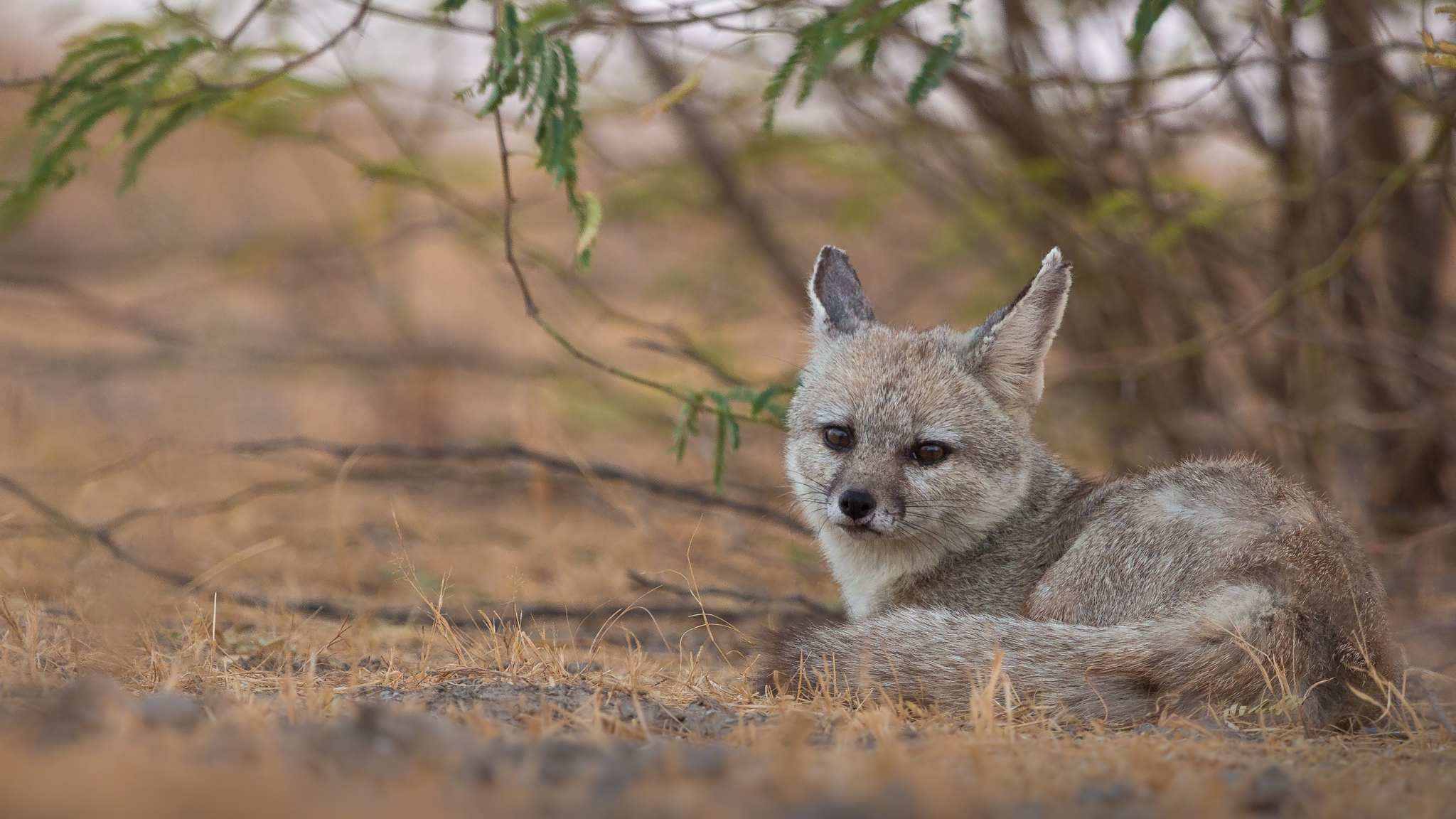 Female resting near her den site